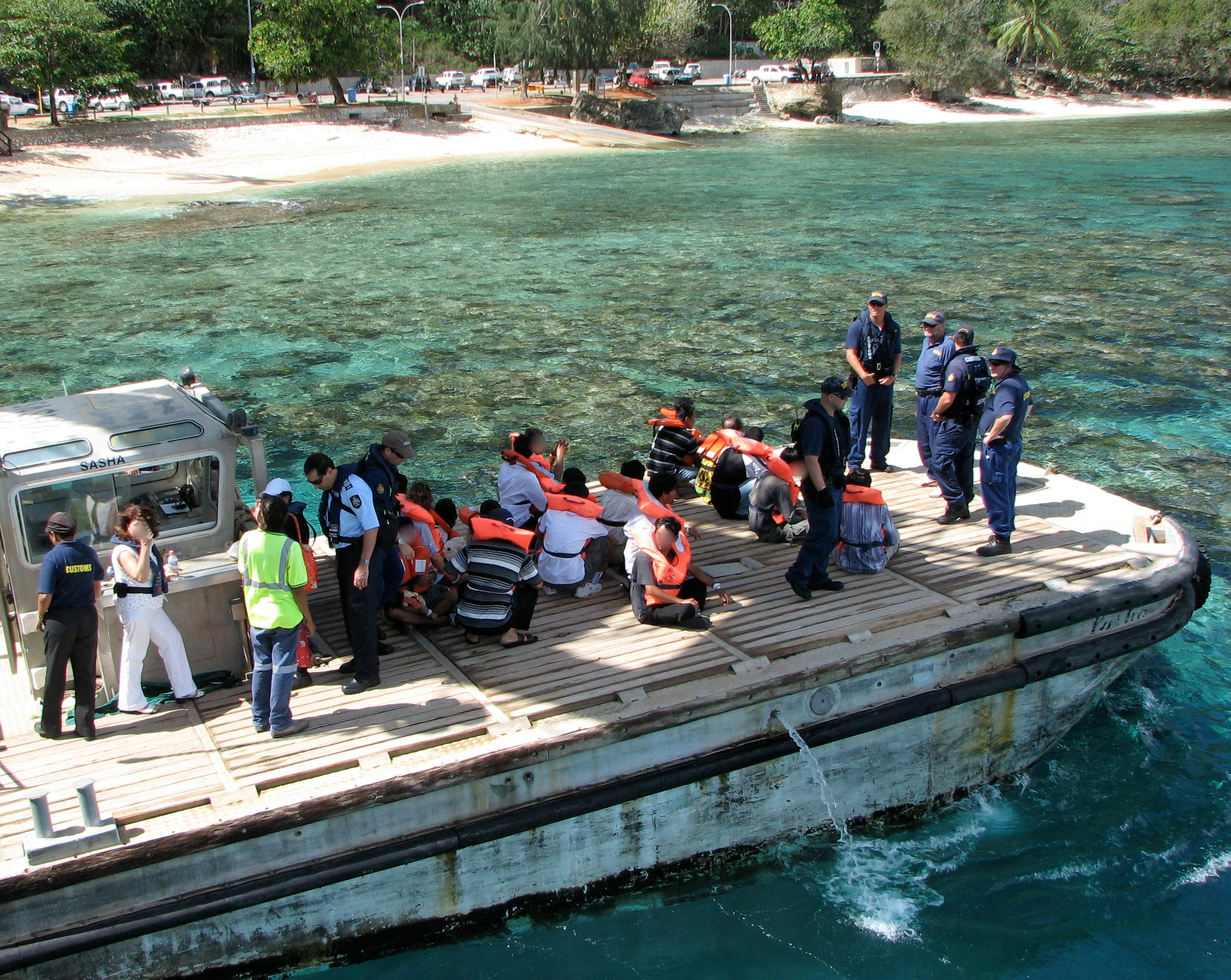 Christmas Island Immigration Detention Centre